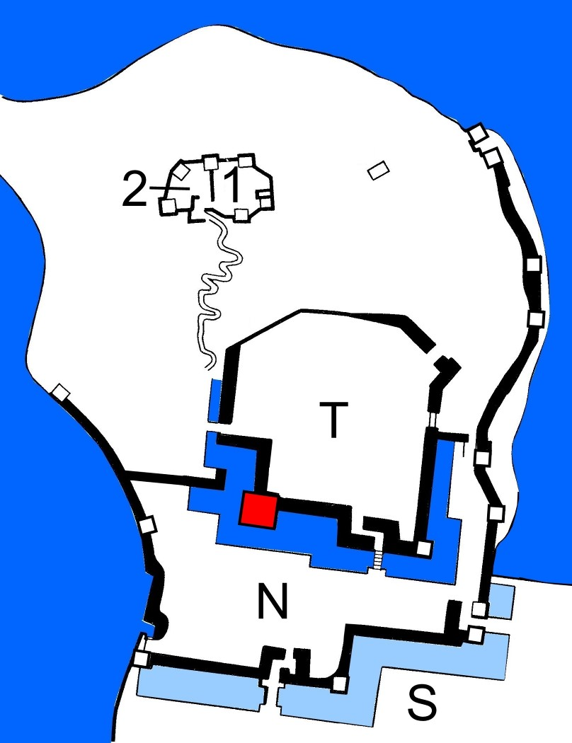 Hagi castle description